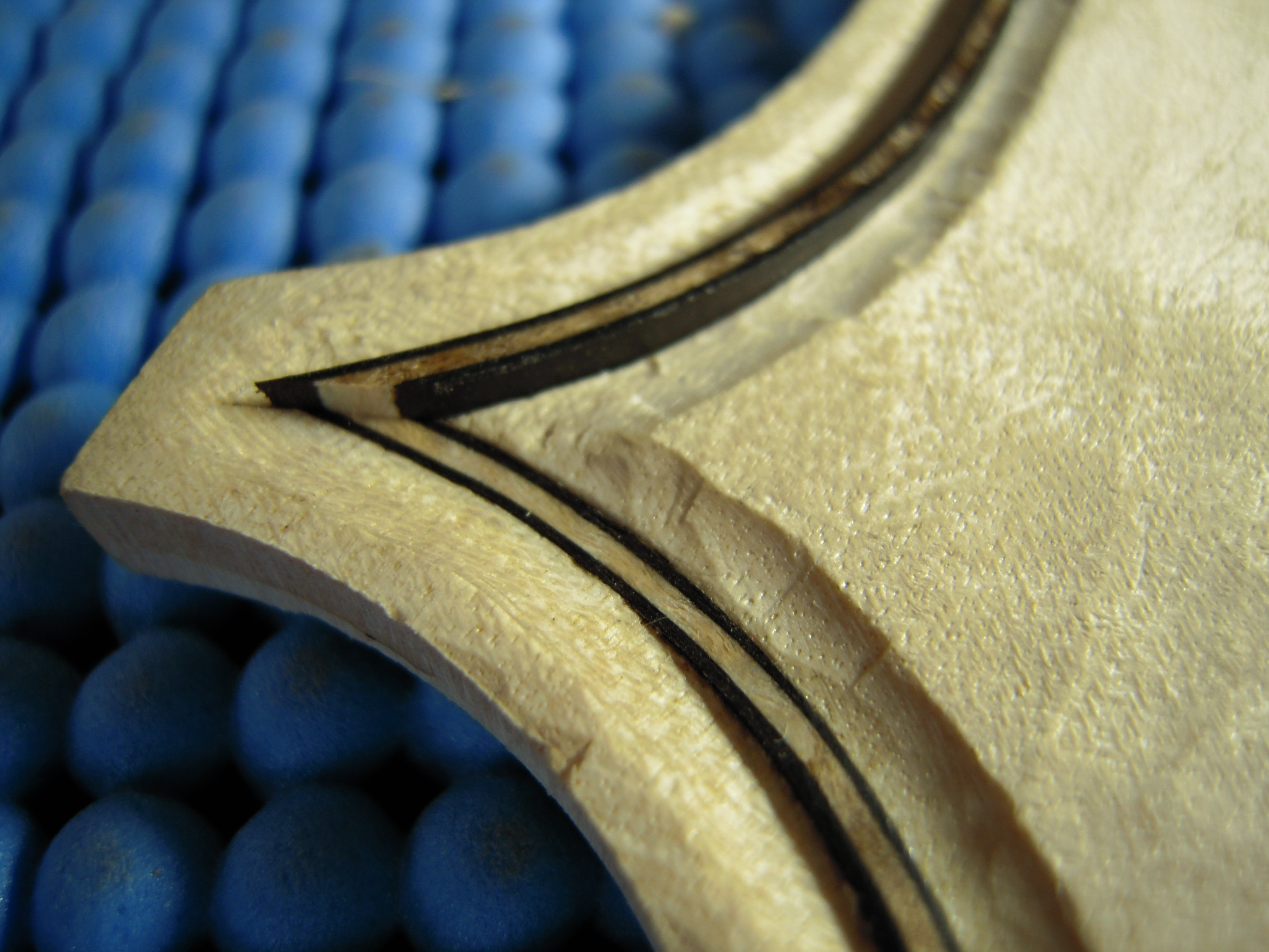 Part of a cello in the process of manufacture. The purfling is being glued on at the edge.